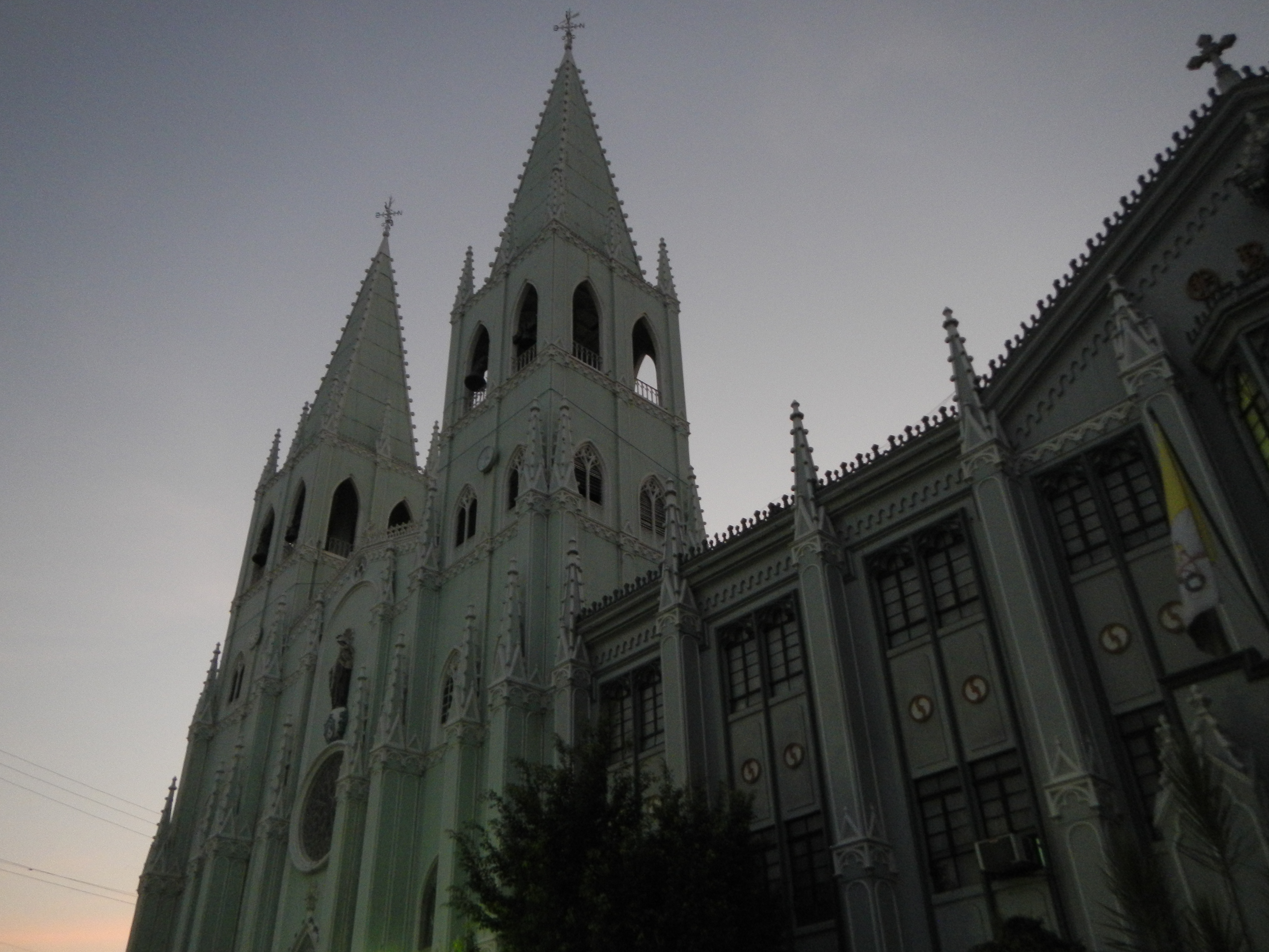 Basilica of San Sebastian, Manila[1]The Basilica Minore de San Sebastián, better known as San Sebastián Church, is a Roman Catholic minor basilica in Manila, the Philippines. It is the seat of the Parish of San Sebastian and the National Shrine of Our Lady of Mt. Carmel.[2]